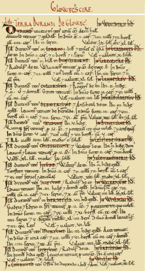 Domesday Book (1086) listing landholdings in Gloucestershire of Durand the Sheriff, a tenant-in-chief of King William the Conqueror. Manors of : Minsterworth, Westbury, Gloucestershire Ashbrook, Gersdones, Gloucestershire Duntisbourne [Rouse], Cirencester, Gloucestershire Culkerton, Longtree, Gloucestershire Didmarton, Grimboldestou, Gloucestershire Whaddon, Dudstone, Gloucestershire Sezincote, Celfledetorn, Gloucestershire Icomb [Proper], Salmonsbury, Gloucestershire Shipton [Pelye], Wacrescumbe, Gloucestershire [Sheriffs] Haresfield, Whitstone, Gloucestershire ? Moreton [Valence], Whitstone, Gloucestershire Littleton, Greston, Gloucestershire Condicote, Witley, Gloucestershire In addition he held 8 manors in Herefordshire and others in other counties, totalling 63 holding.